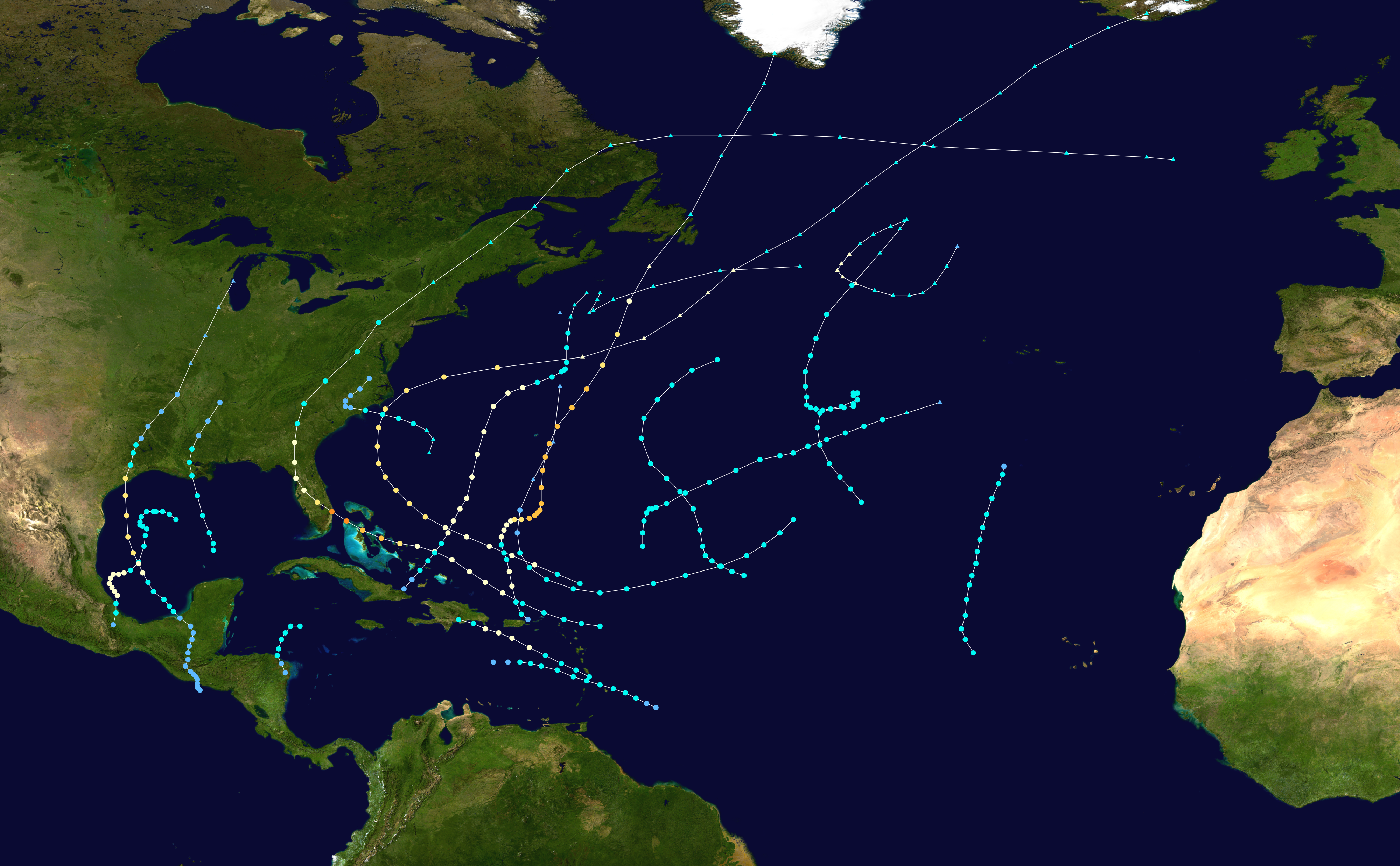 This map shows the tracks of all tropical cyclones in the 1949 Atlantic hurricane season. The points show the location of each storm at 6-hour intervals. The colour represents the storm's maximum sustained wind speeds as classified in the Saffir-Simpson Hurricane Scale (see below), and the shape of the data points represent the type of the storm. Saffir–Simpson scale Tropical depression≤38 mph≤62 km/h Category 3111–129 mph178–208 km/h Tropical storm39–73 mph63–118 km/h Category 4130–156 mph209–251 km/h Category 174–95 mph119–153 km/h Category 5≥157 mph≥252 km/h Category 296–110 mph154–177 km/h Unknown Storm type Tropical cyclone Subtropical cyclone Extratropical cyclone / Remnant low / Tropical disturbance / Monsoon depression